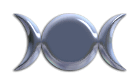 The Triple Moon, symbol of the Triple Goddess and of the Wiccan faith. The symbol is a representation of the three phases of the Moon, the three phases of human life and the cycle of all things. As a symbol of the cosmic cycles it is also a representation of the process of life and death, reincarnation and rebirth.